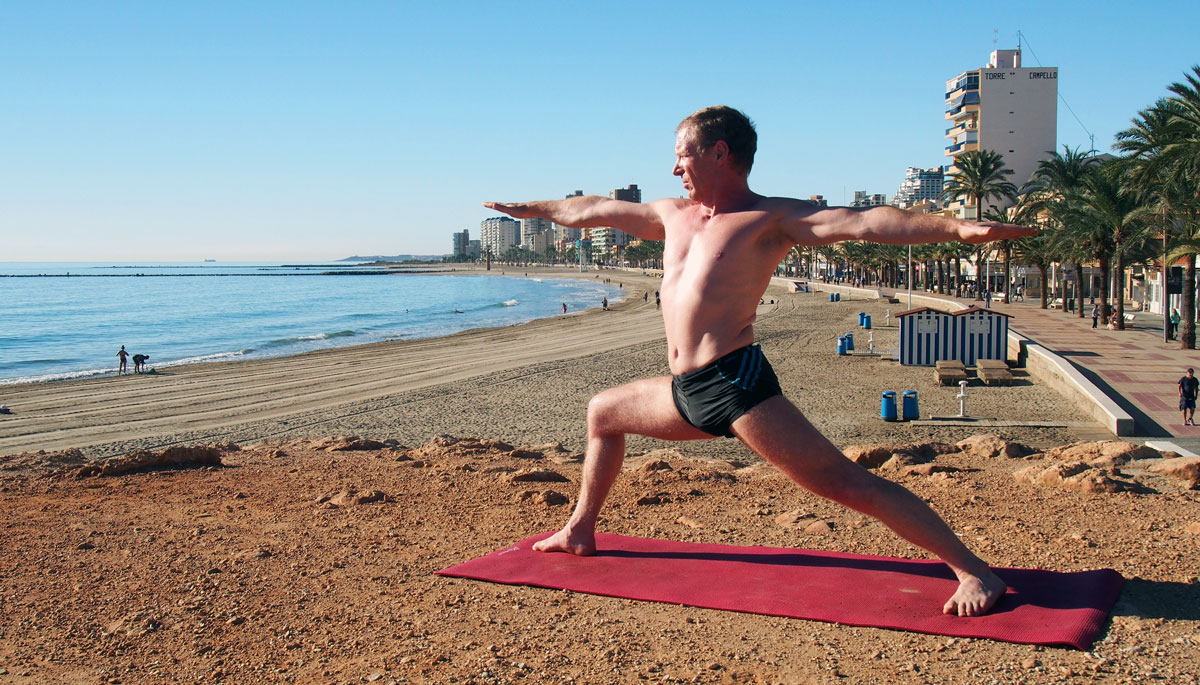 Warrior ii संस्कृतम्: Virabhadrasana ii